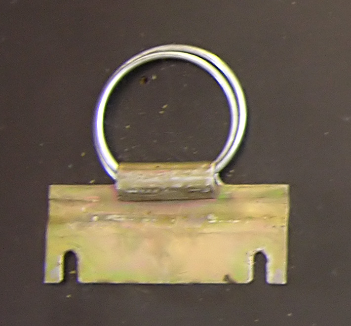 The arming key from Sputnik satellite #1. The only remaining piece of this satellite. Currently on display at the United States National Air and Space Museum.